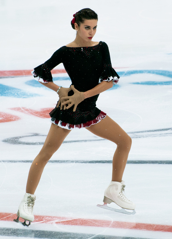 2012 Cup of Russia, ladies' short program.